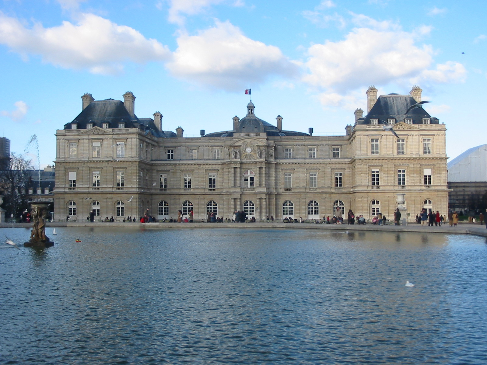 The Luxembourg Palace, housing the French Senate.